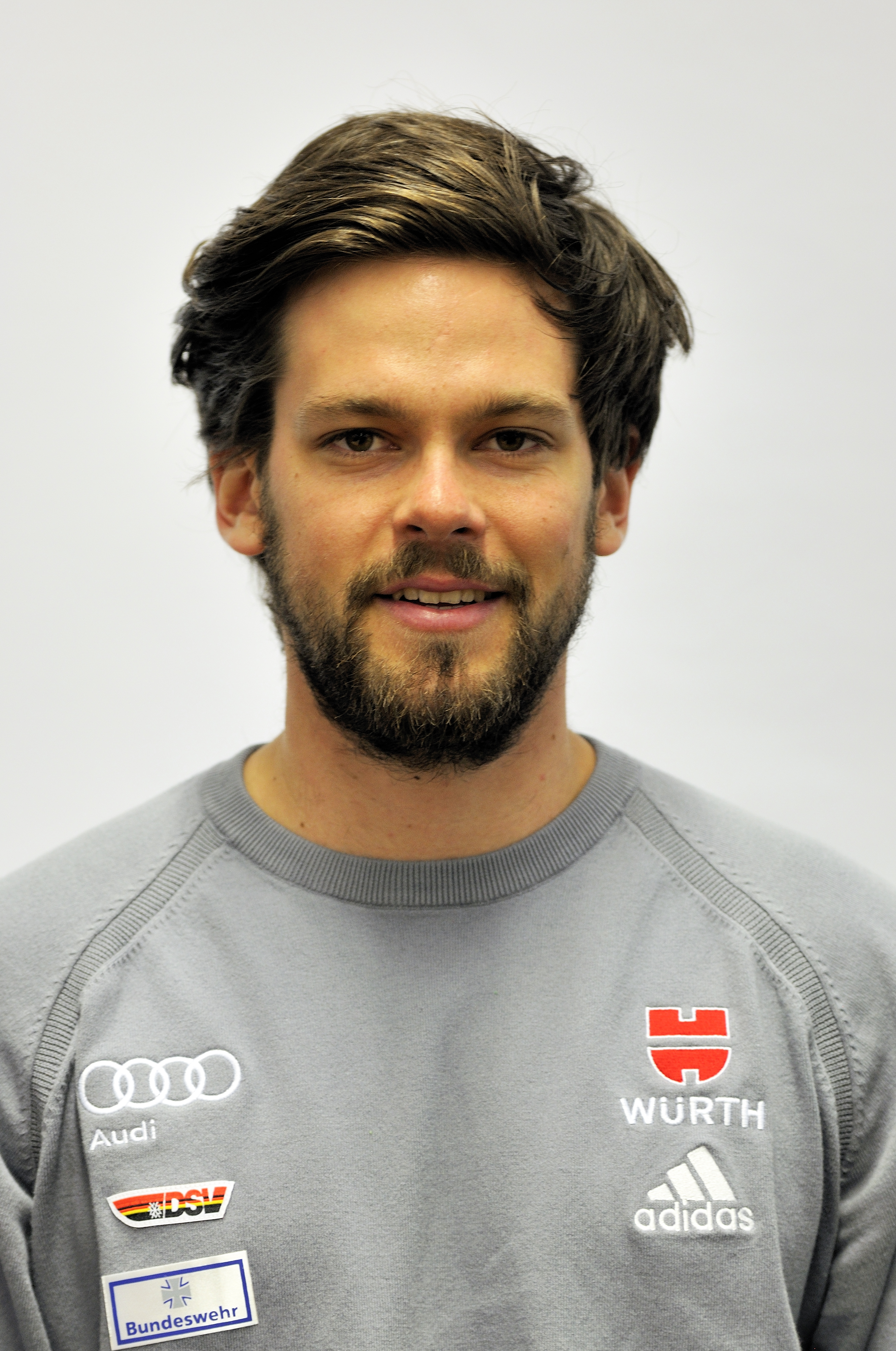 Picture taken in Erding during the investiture of the 2014 German olympic team (project). Florian Eigler.